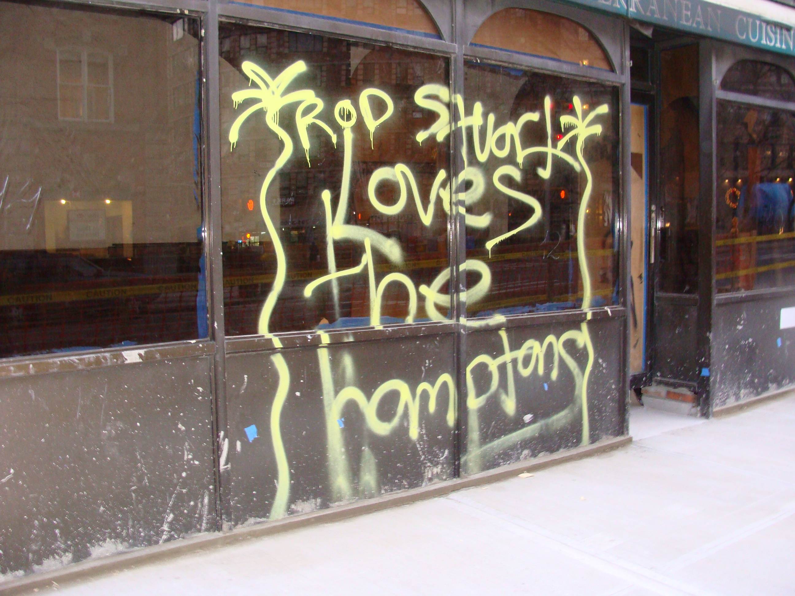 Storefront grafitti in TriBeCA neighborhood in NYC, NY